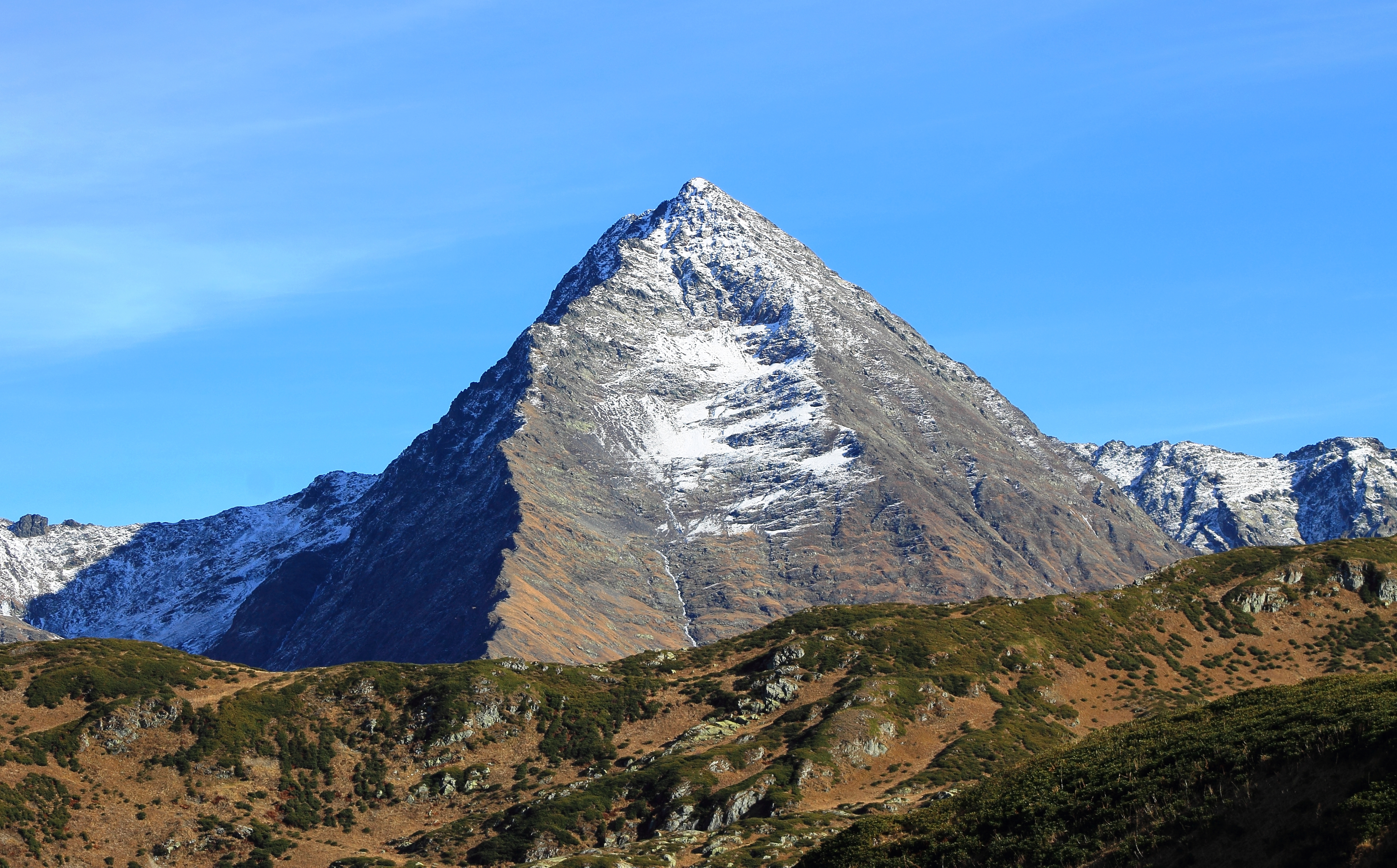 Mountain Sakharny Pseashkho in Caucasian Nature Reserve